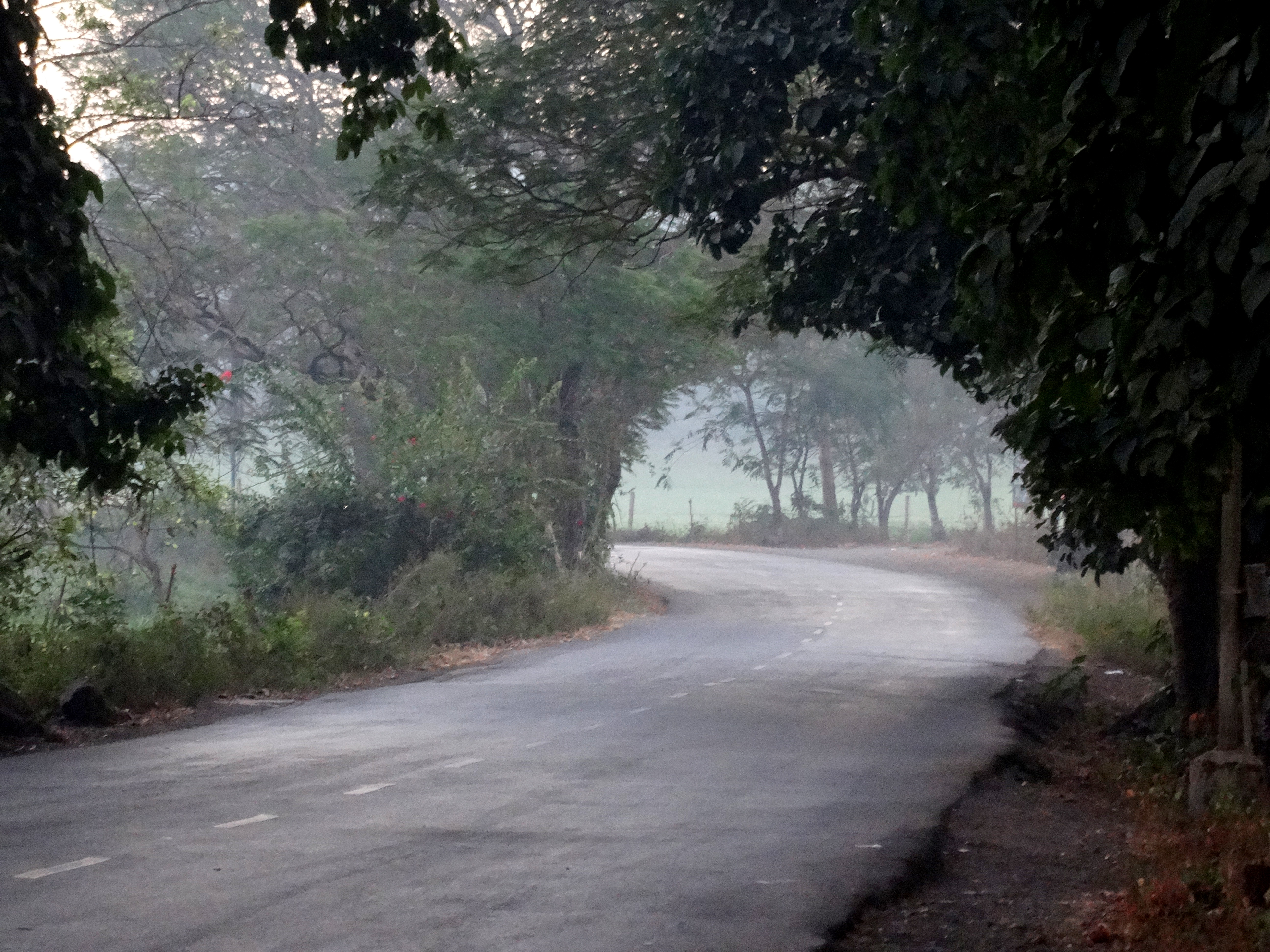 A road inside Aarey Colony (protected area)